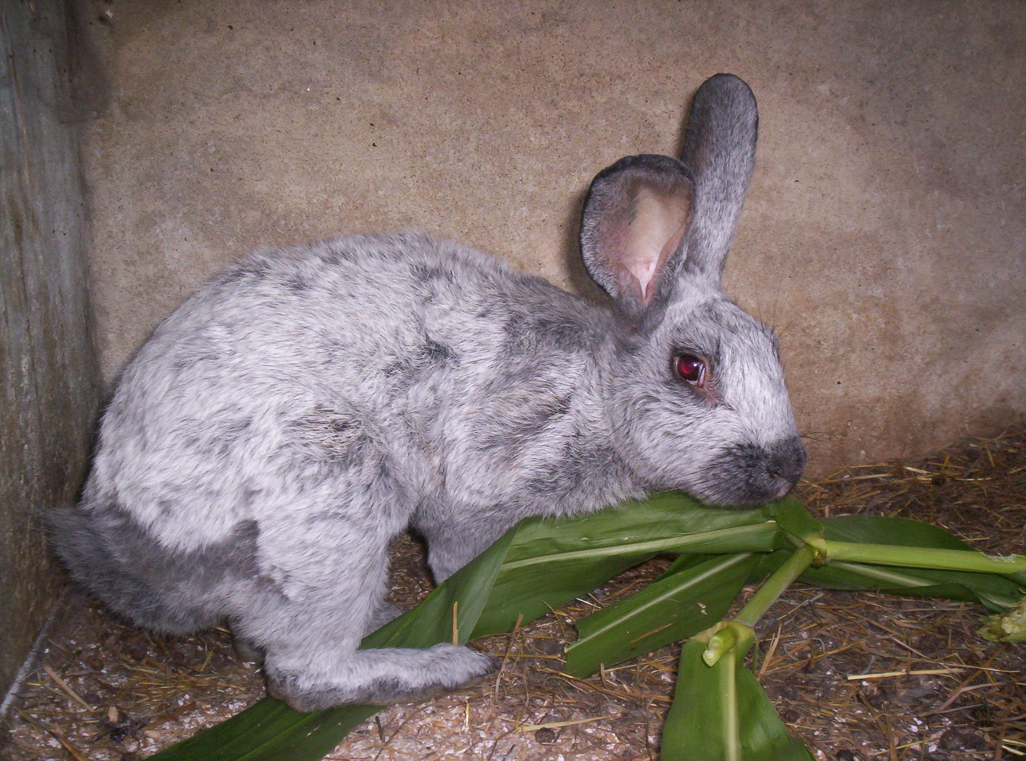 Rabbit Champagne d'argente